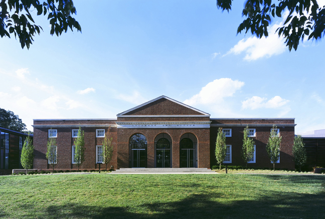 View of Museum from Kentmere Parkway